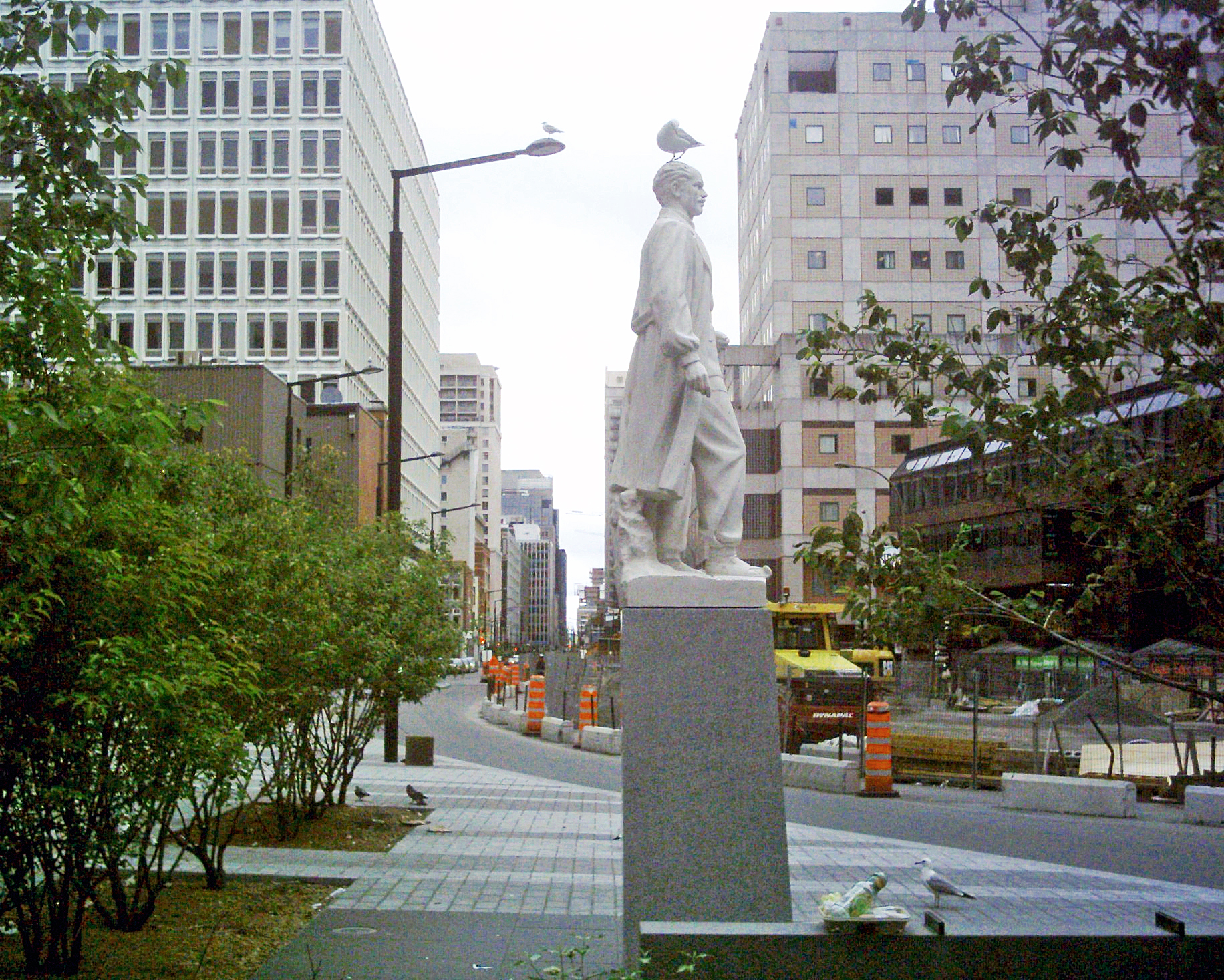 Place Norman-Bethune in Montreal